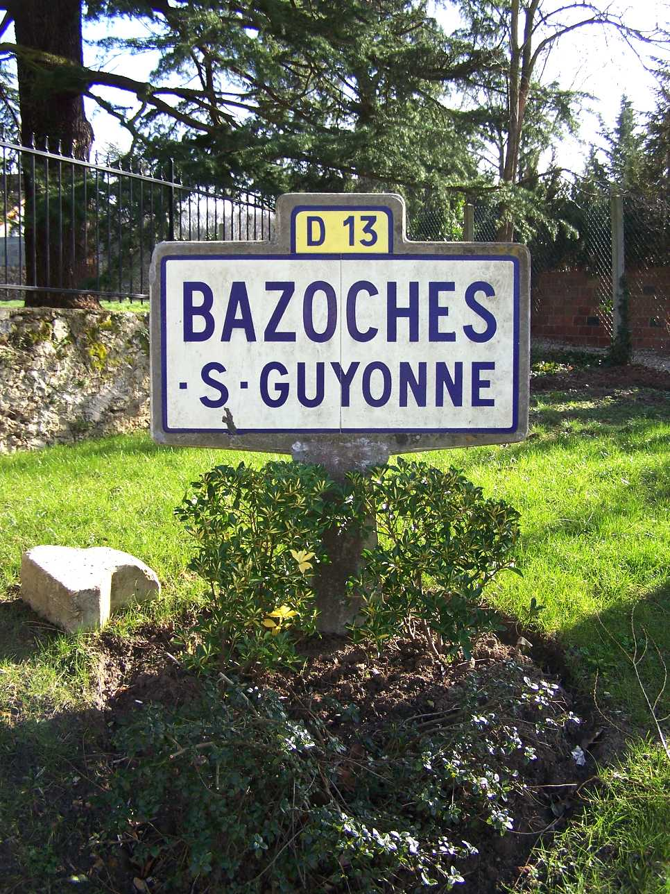 Trafic sign in Bazoches-sur-Guyonne (Yvelines, France)